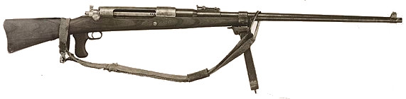 German anti-tank rifle M1918